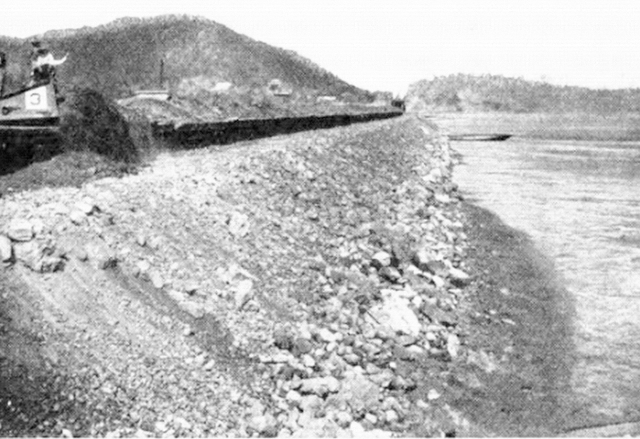 The name of the illustration is the same as the caption in this book about Panama and it's History (c) 1916.